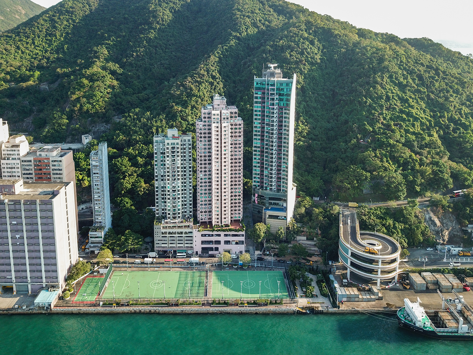 Kennedy Town Temporary Recreation Ground